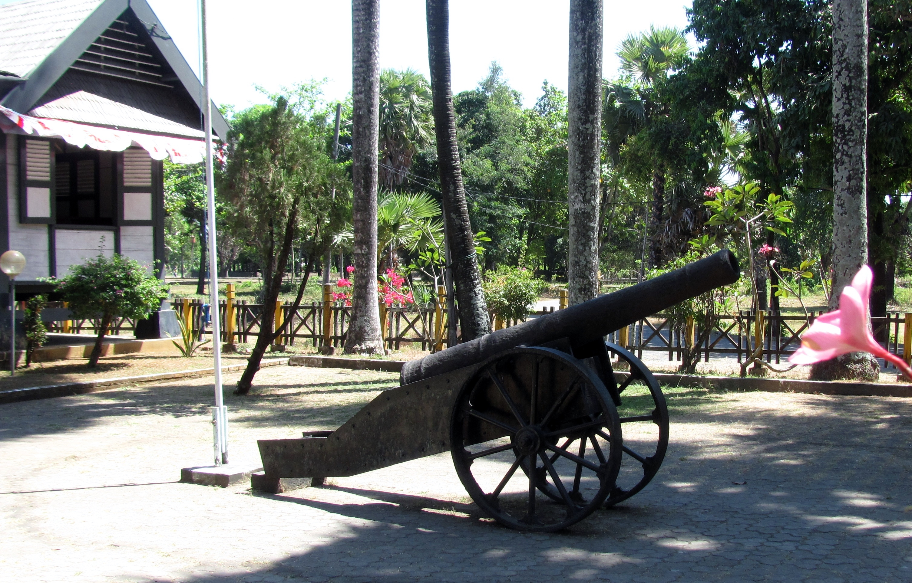 Canon at the museum of Fort "Benteng Samba Opu", Sungguminasa near Makassar, Sulawesi, Indonesia